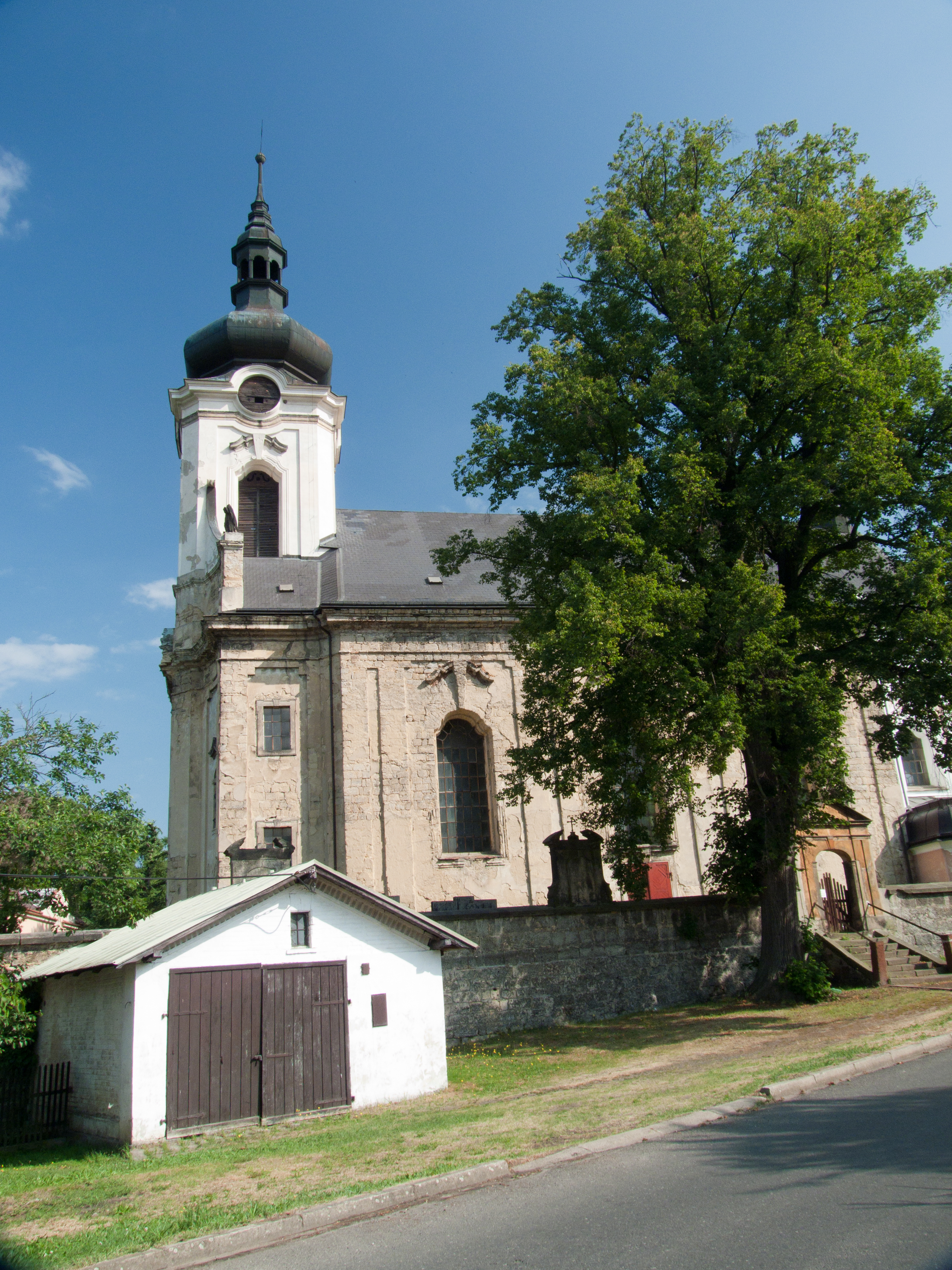 Assumption of Virgin Mary Church in the village of Arnoltice, Děčín District, Czech Republic, as seen from the south-east